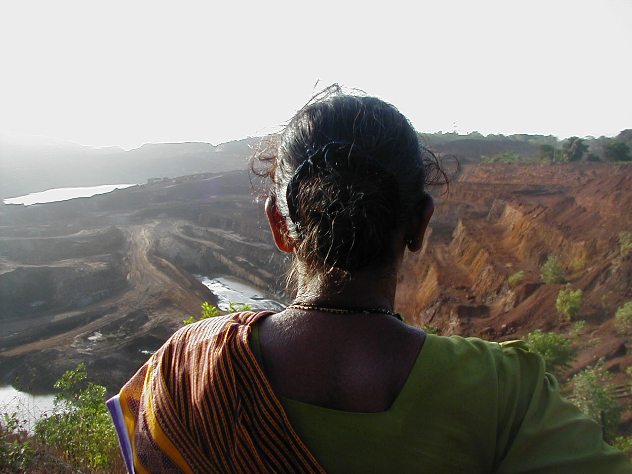 Photo by Frederick Noronha.